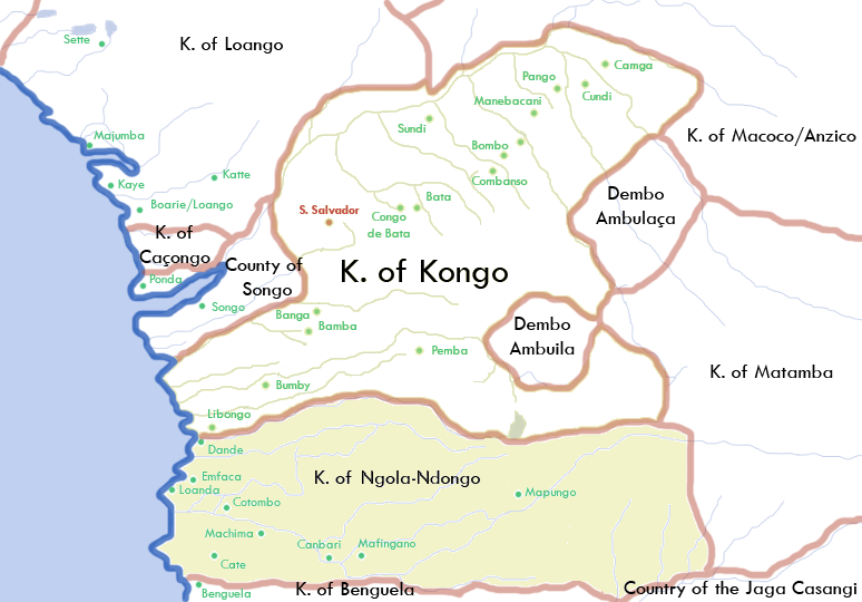 Original source: Image:KingdomKongo1711.png, by User:Hexagon1. Based in Kingdom of Ndongo.